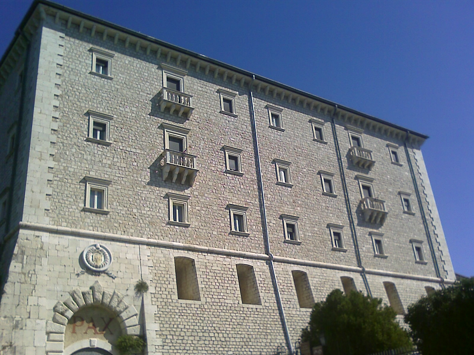 Montecassino abbey: other visual